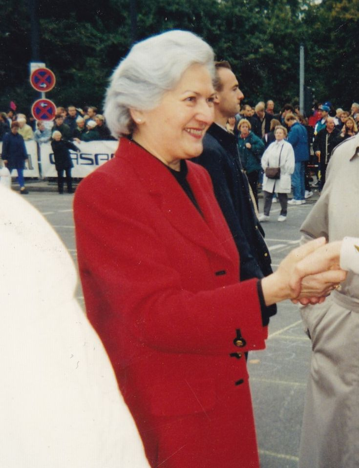 Christiane Herzog (1936-2000), wife of German President Roman Herzog, at the Berlin Marathon on September 29, 1996. Scan of own photo.